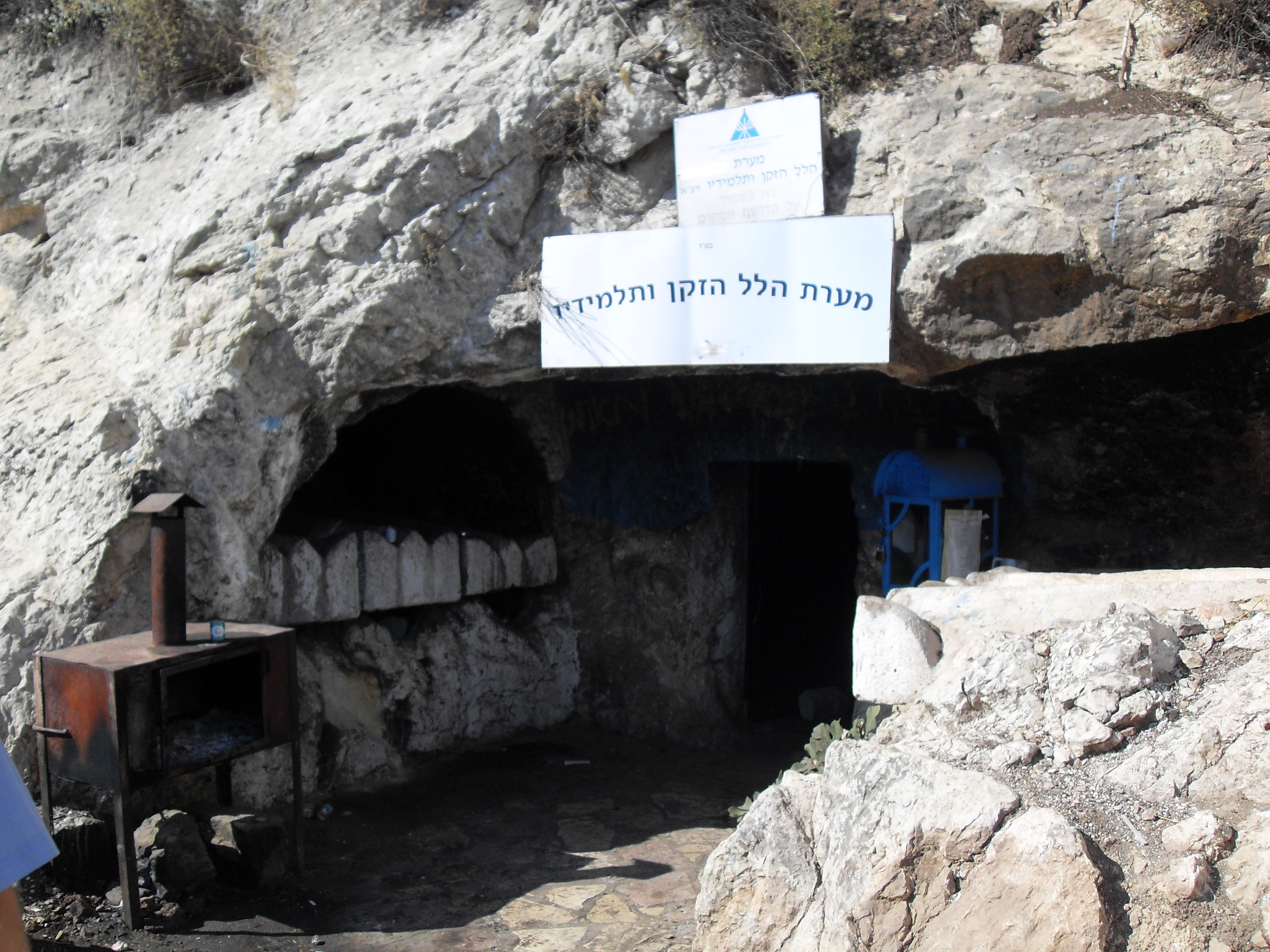 Israel Meron Tomb of Hillel the elder - THE HOLY SITES AUTHORITY